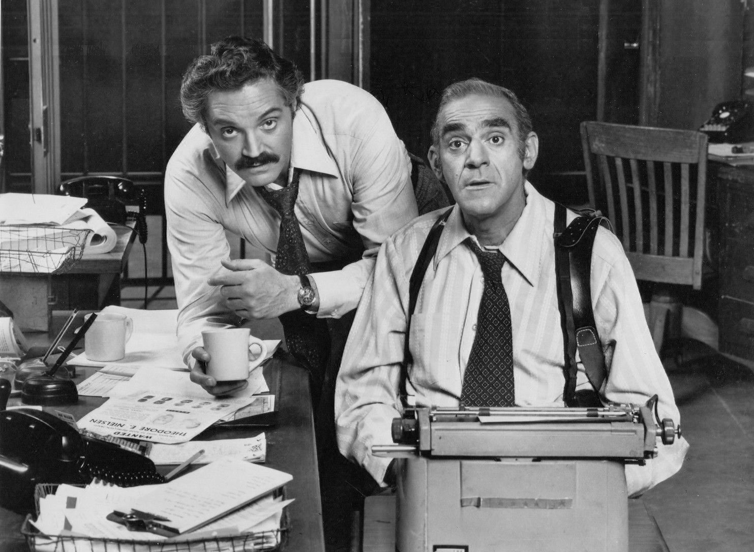 Photo of Hal Linden (Barney Miller) and Abe Vigoda (Detective Fish) from the television progrsm Barney Miller.